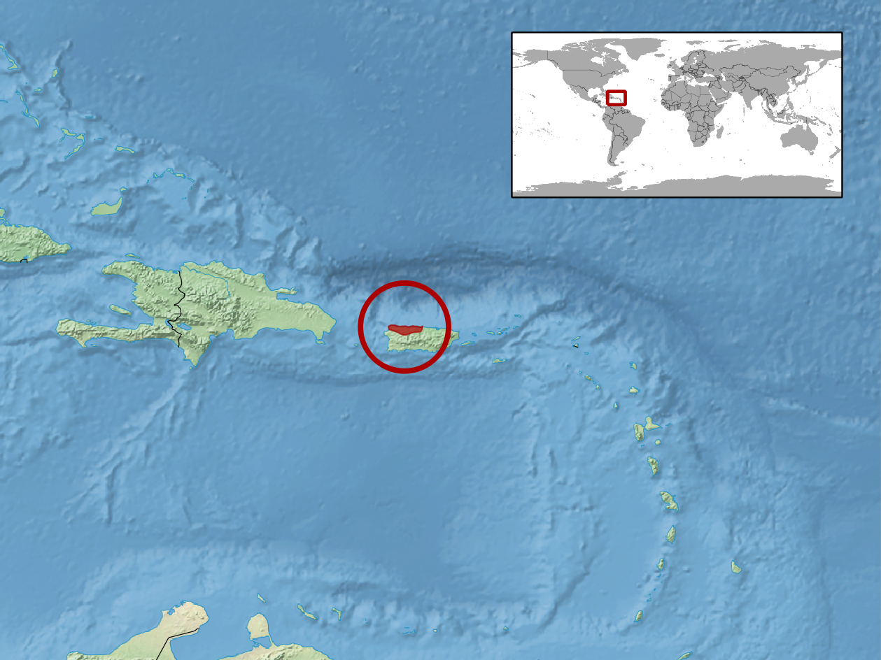 geographic distribution of Amphisbaena schmidti (Native: Puerto Rico)